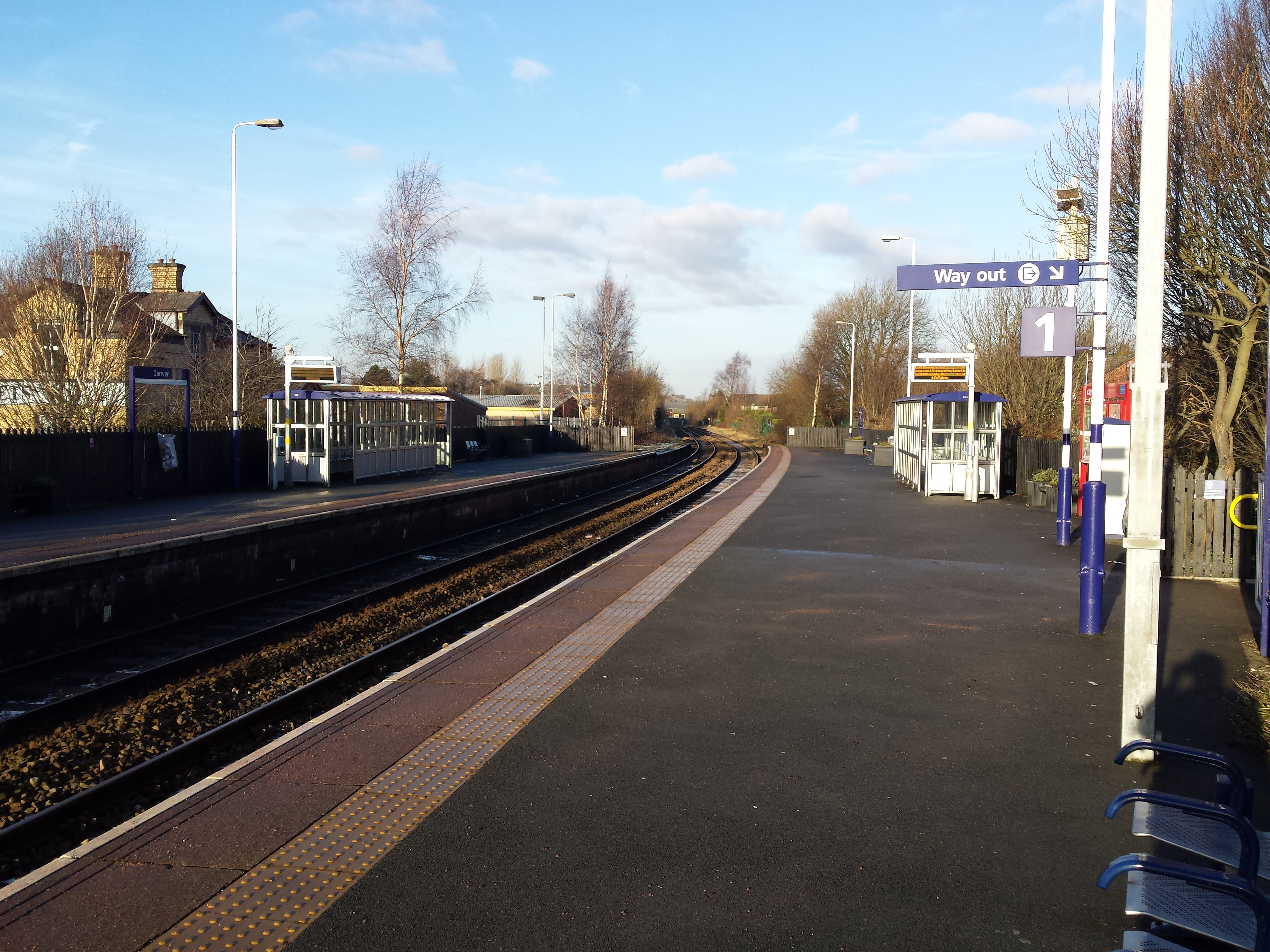 Darwen railway station looking North (towards Blackburn)